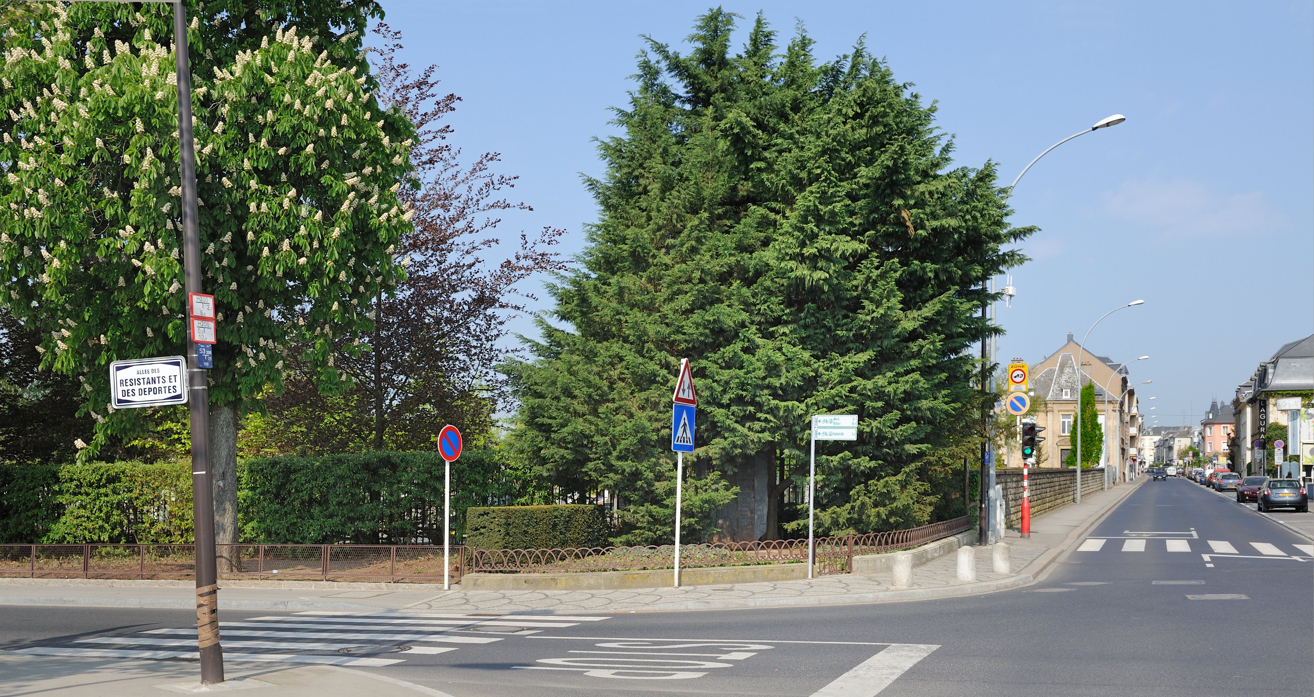 Luxembourg City: crossroads at Limpertsberg, with Allée des résistants et des déportés at the left and avenue de la Faïencerie at the right side. To the right of the image centre: the memorial of 1972 commemorating the rebels of the Peasants's War of 1798 who were executed at that very place in 1799.